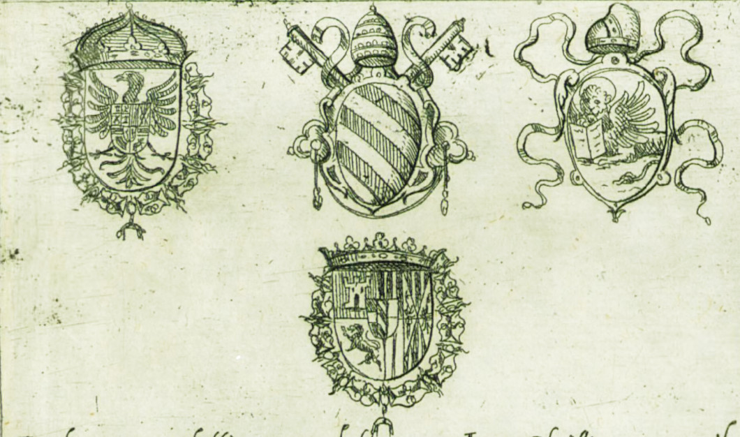 Coats of arms of the leaders of the Holy League. Antonio Lafreri , L’ordine tenuto dall’armata della santa Lega Christiana contro il Turcho […], n'e seguita la felicissima Vittoria li sette d'Ottobre MDLXXI […], Rome, 1571